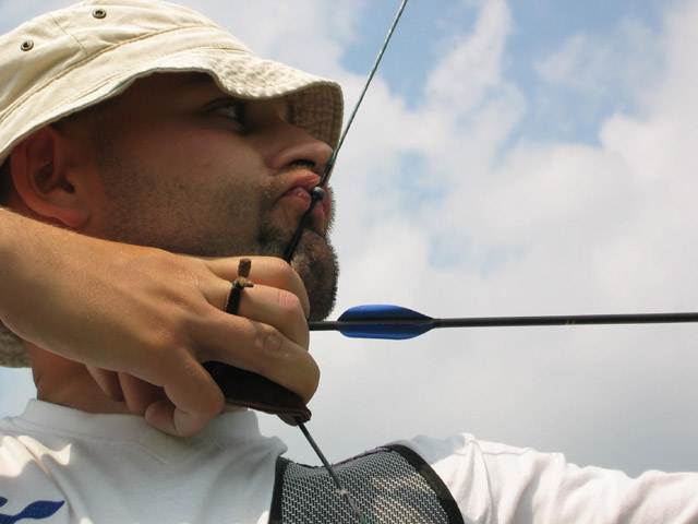 Italian archer Michele Frangili